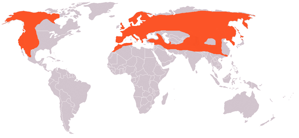 Distribution of the brown bear in the 19th century